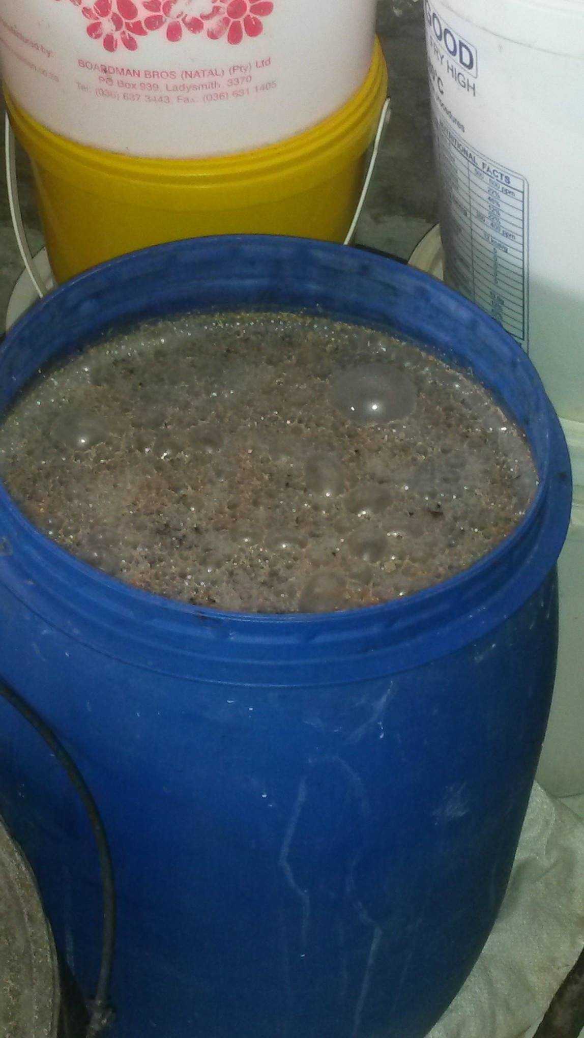 African brewed beer. This is an image of Cultural Fashion or Adornment from South Africa